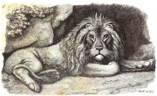 Lion resting (etching)